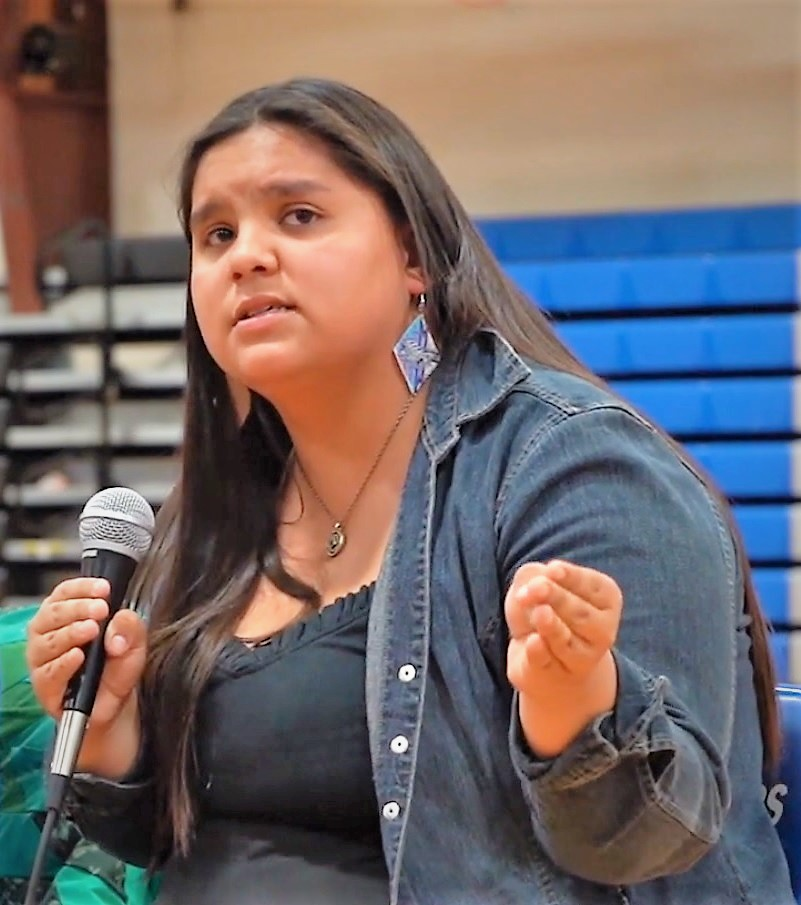 Fighting for a Livable Future with Tokata Iron Eyes and Greta Thunberg On the evening of Sunday, October 6, the Lakota People’s Law Project hosted a climate change forum on the Pine Ridge Reservation including a youth panel with Tokata Iron Eyes, who is a local Indigenous rights advocate and youth climate activist, as well as Swedish youth climate activist Greta Thunberg. This video shows highlights from the panel, but if you would like to watch the panel in its entirety, check it out here: If you appreciate this coverage, please consider a tax-deductible donation